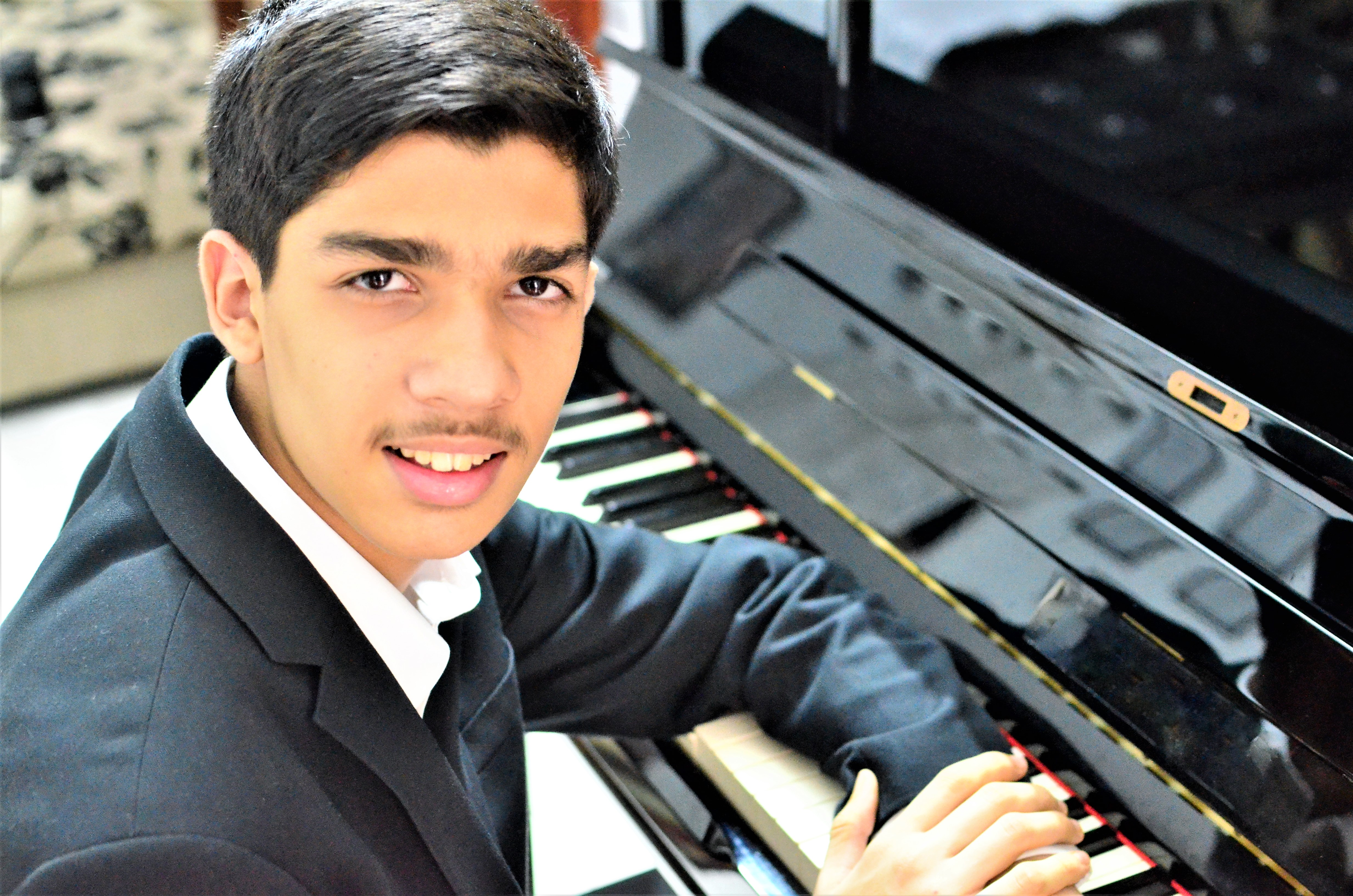 Milen Manoj Earath